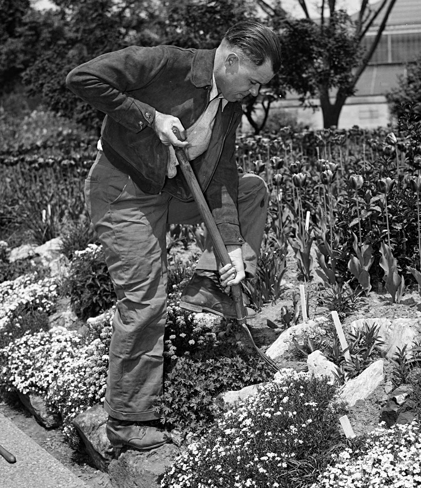 William R. Poage, US Representative from Texas, working the ground in the Botanical Gardens of Washington D.C.